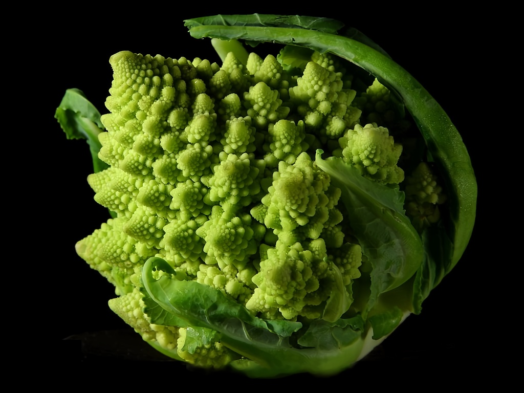 The fractal shape form of a Romanesco broccoli.